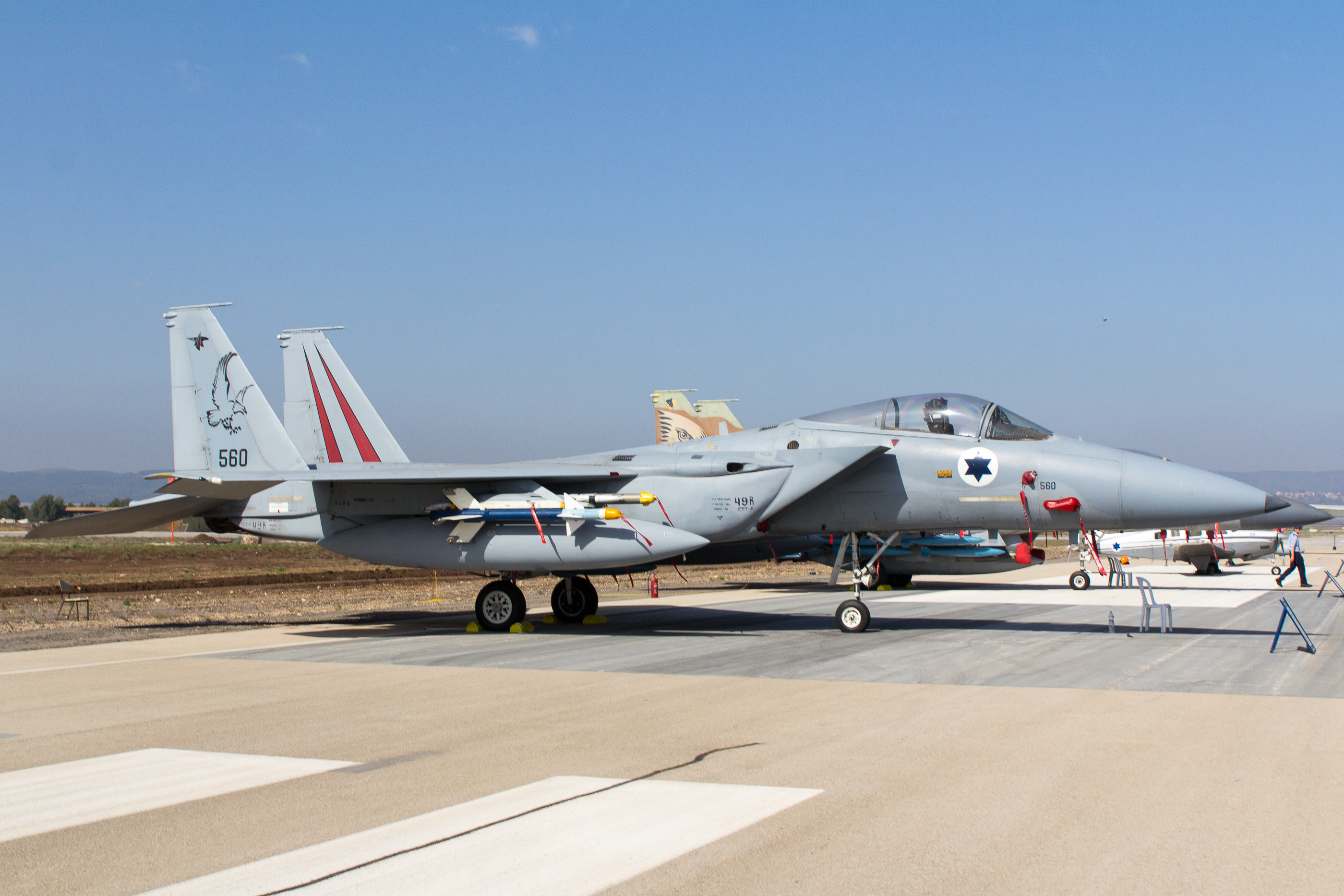 106 Squadron F-15 Eagle at the Israeli Air Force exhibition at Ramat David AFB on Israel's 69th Independence Day